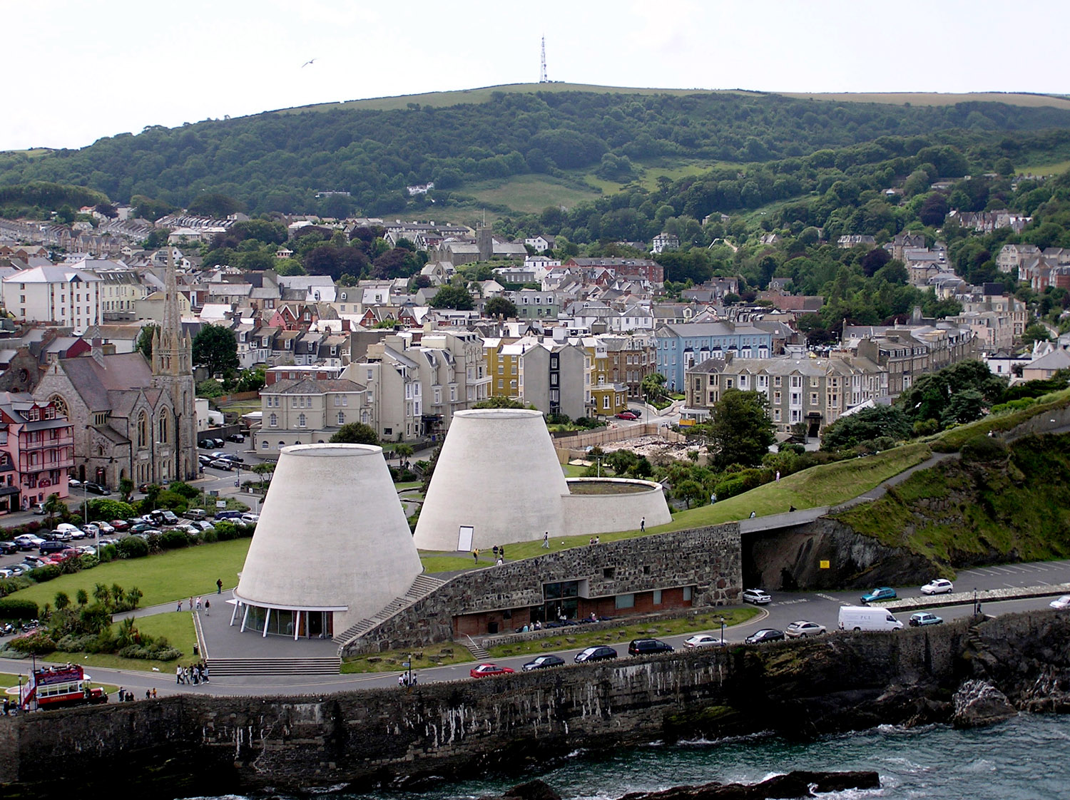 The Landmark theatre in Ilfracombe, Devon, England. Taken by Adrian Pingstone in July 2004 and placed in the public domain.